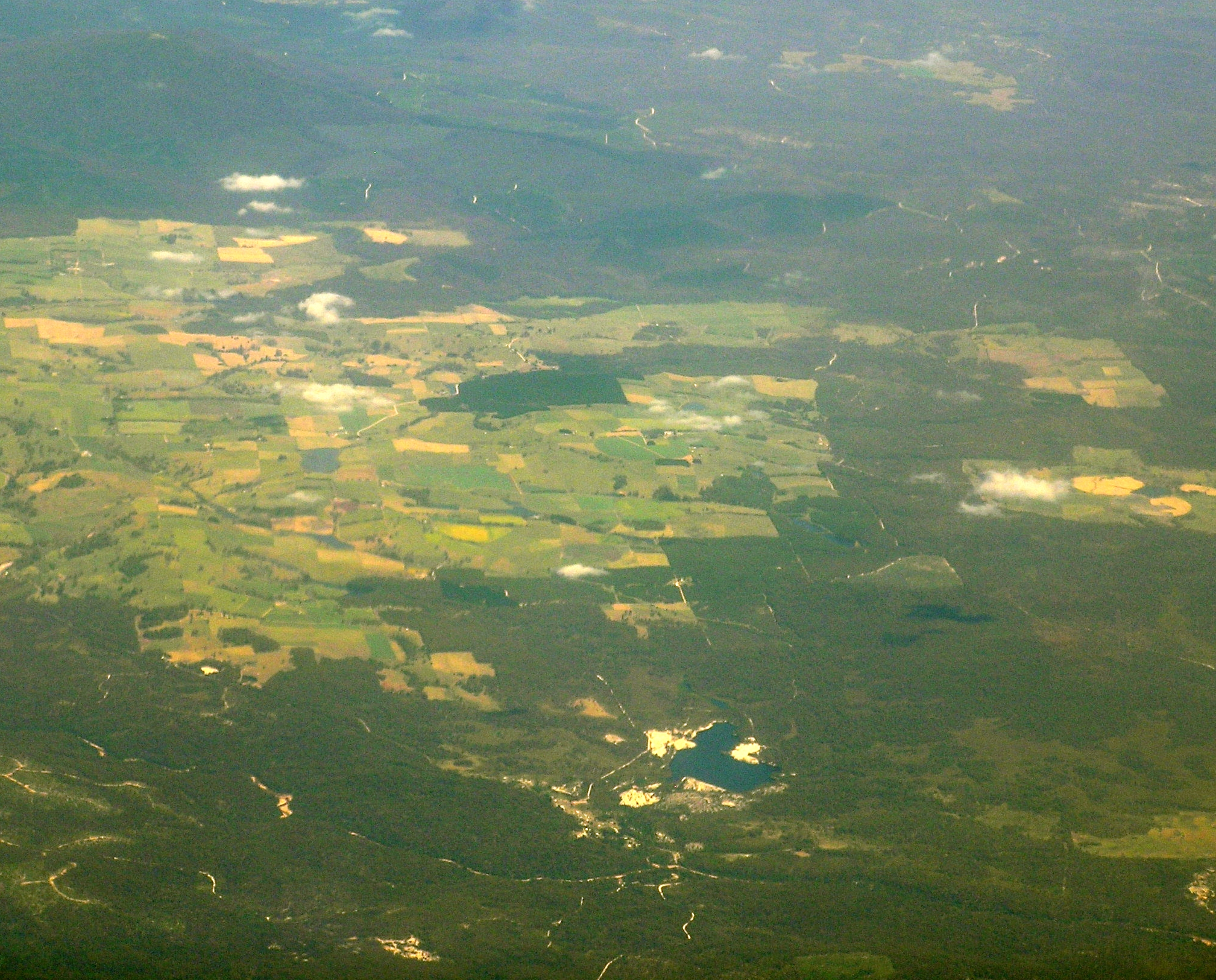 Pioneer Tasmania, near the Boomerang shaped Pioneer Lake, Herrick in the background left